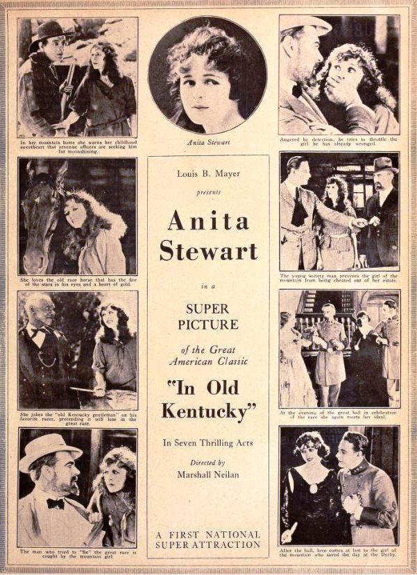 Ad for the American silent film In Old Kentucky (1919), page 81 of the November 1919 Shadowland.